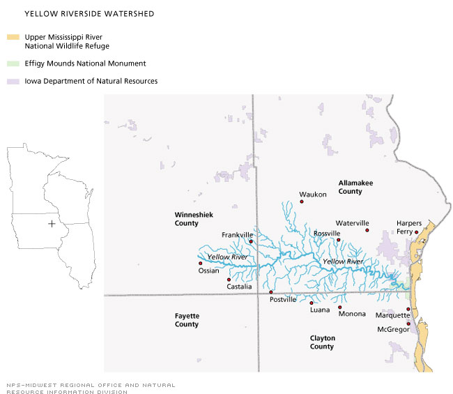 Map of the Yellow River in Eastern Iowa.